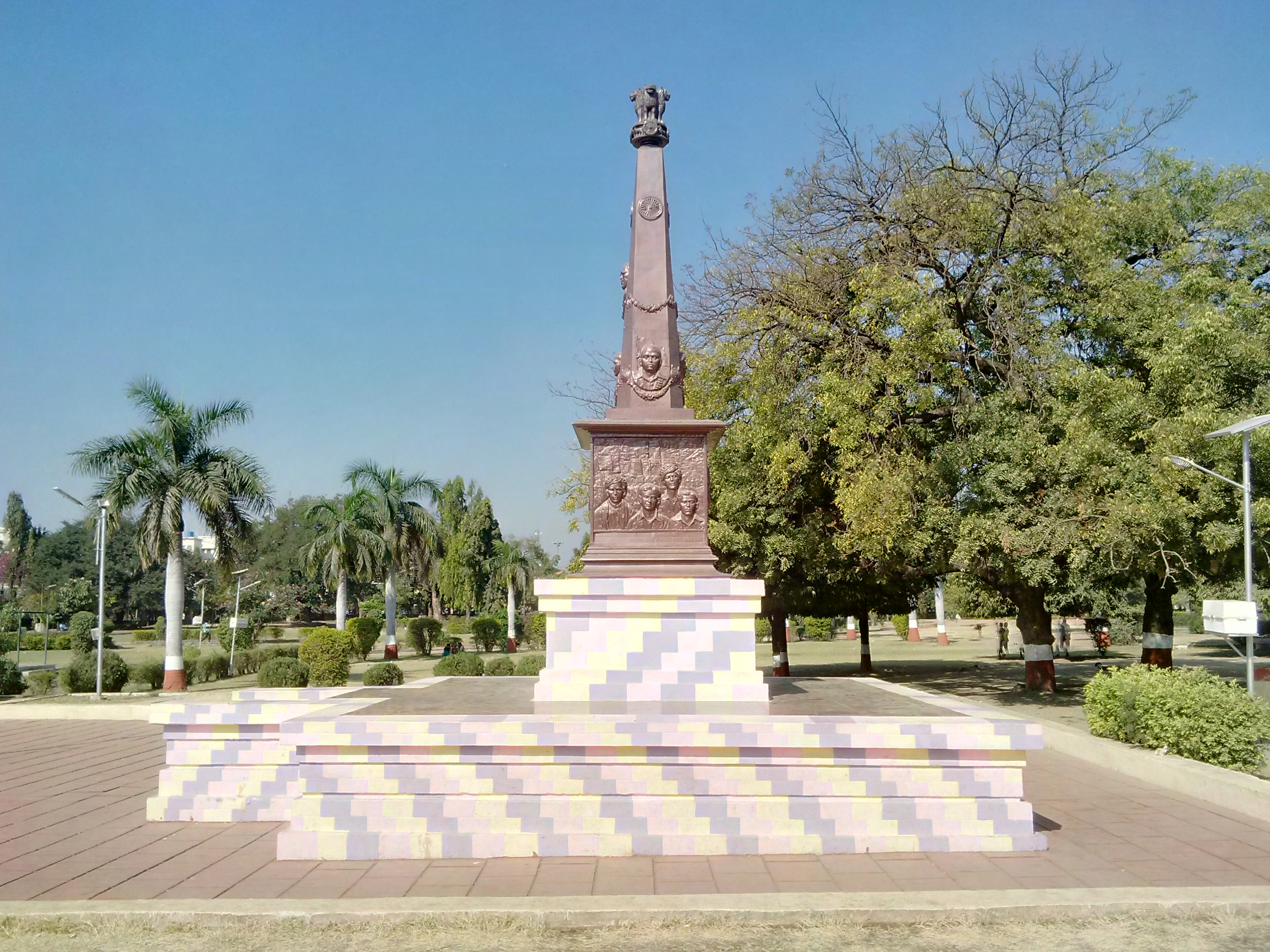 Monument of Marathwada freedom fighter martyrs, Parbhani.